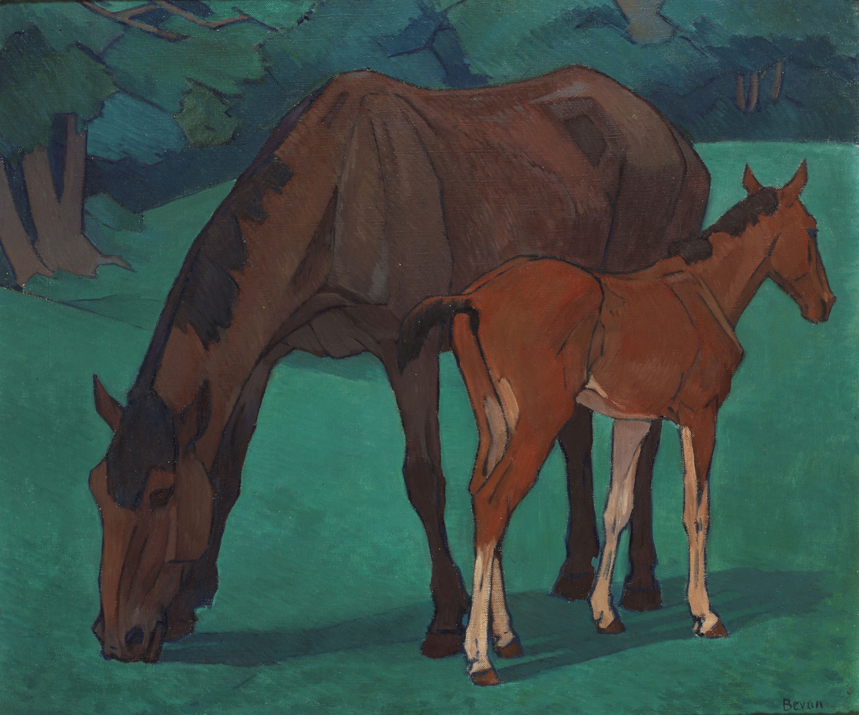 Mare and Foal Licensing Artwork by Robert Bevan (1865-1925).